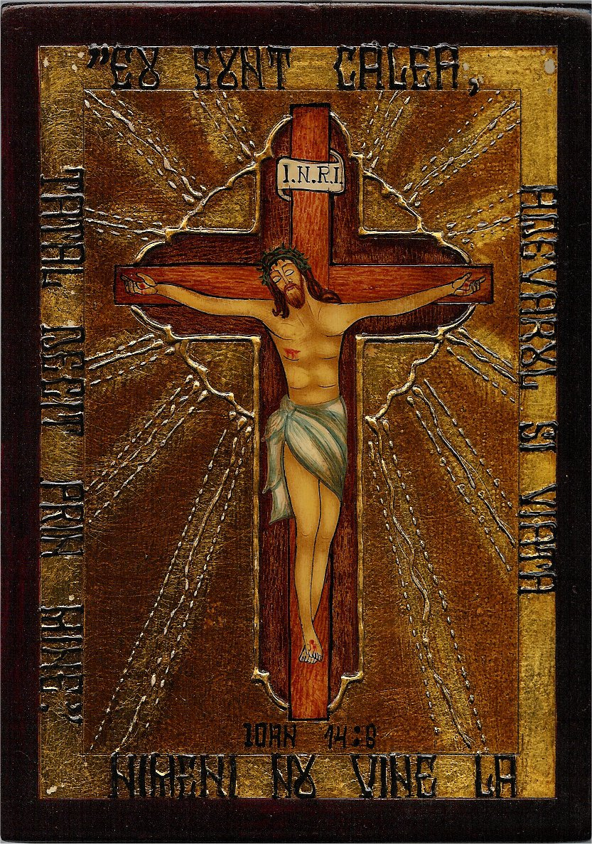 Modern hand painted Romanian icon of Jesus